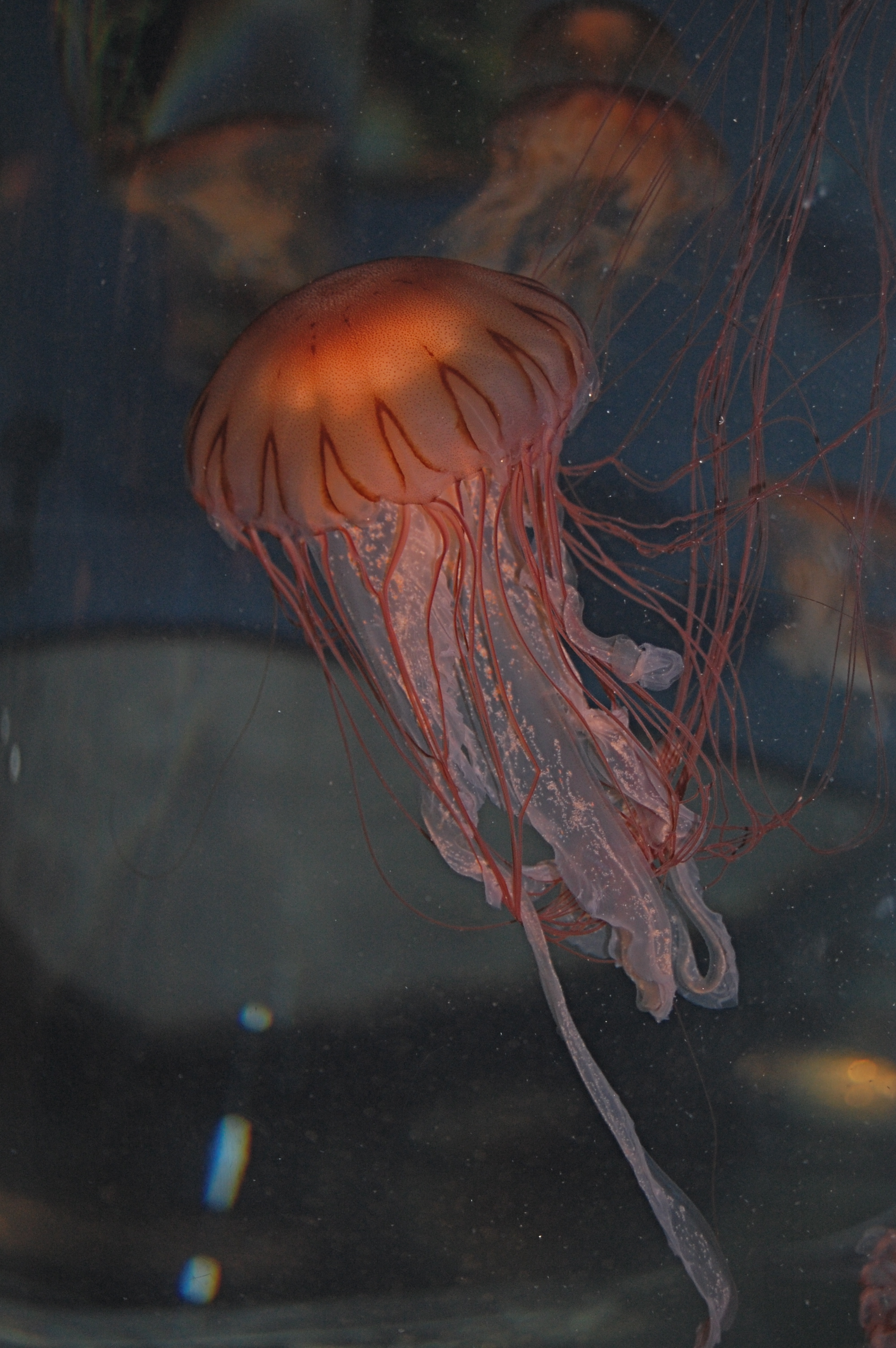 Japanese sea nettle (Chrysaora melanaster) at the New England Aquarium, Boston MA.